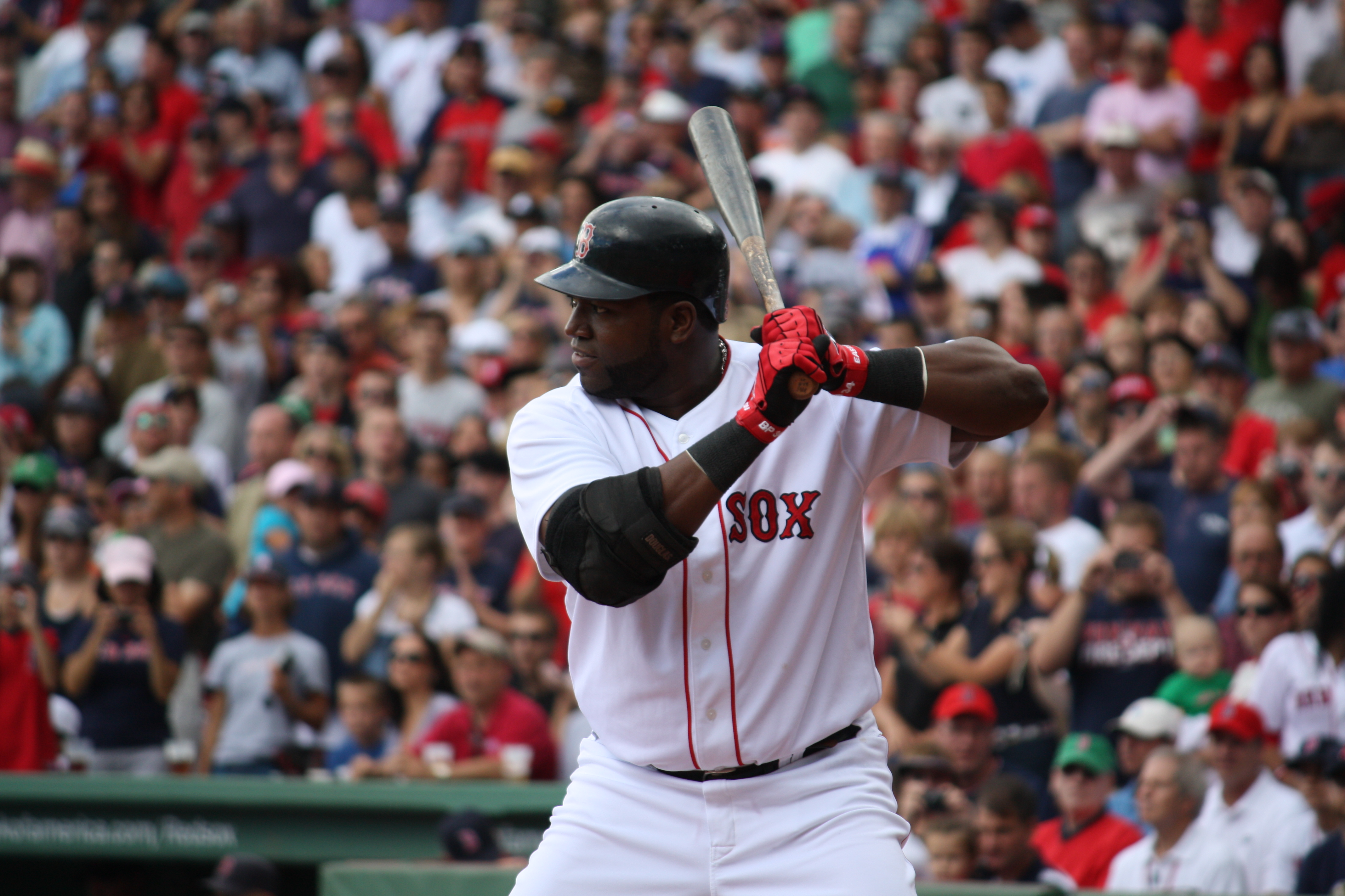 Description David Ortiz at bat against the Tampa Rays, 09-13-2009, Fenway Park Date13 September 2009SourceI, Parker Harrigton, created this work entirely by myself.AuthorParker Harrington 01:47, 14 September 2009 . . Parkerjh . . 4,272×2,848 (3.43 MB) David Ortiz at bat against the Tampa Rays, 09-13-2009, Fenway Park